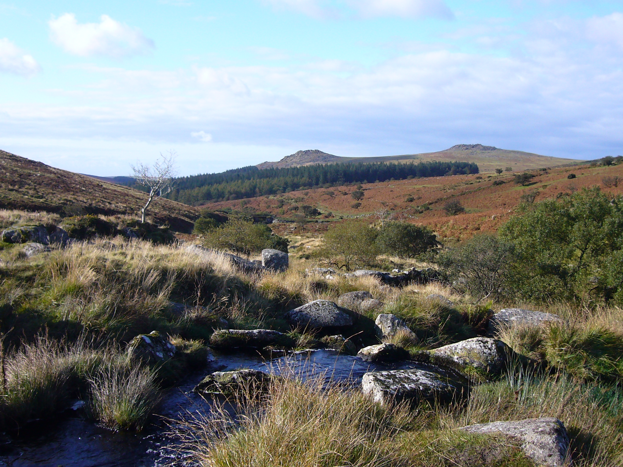 View towards Sharpitor & Leather Tor down the valley of the river Meavy. The river Meavy is in the foregound. The forestry plantation is just above Burrator reservoir.